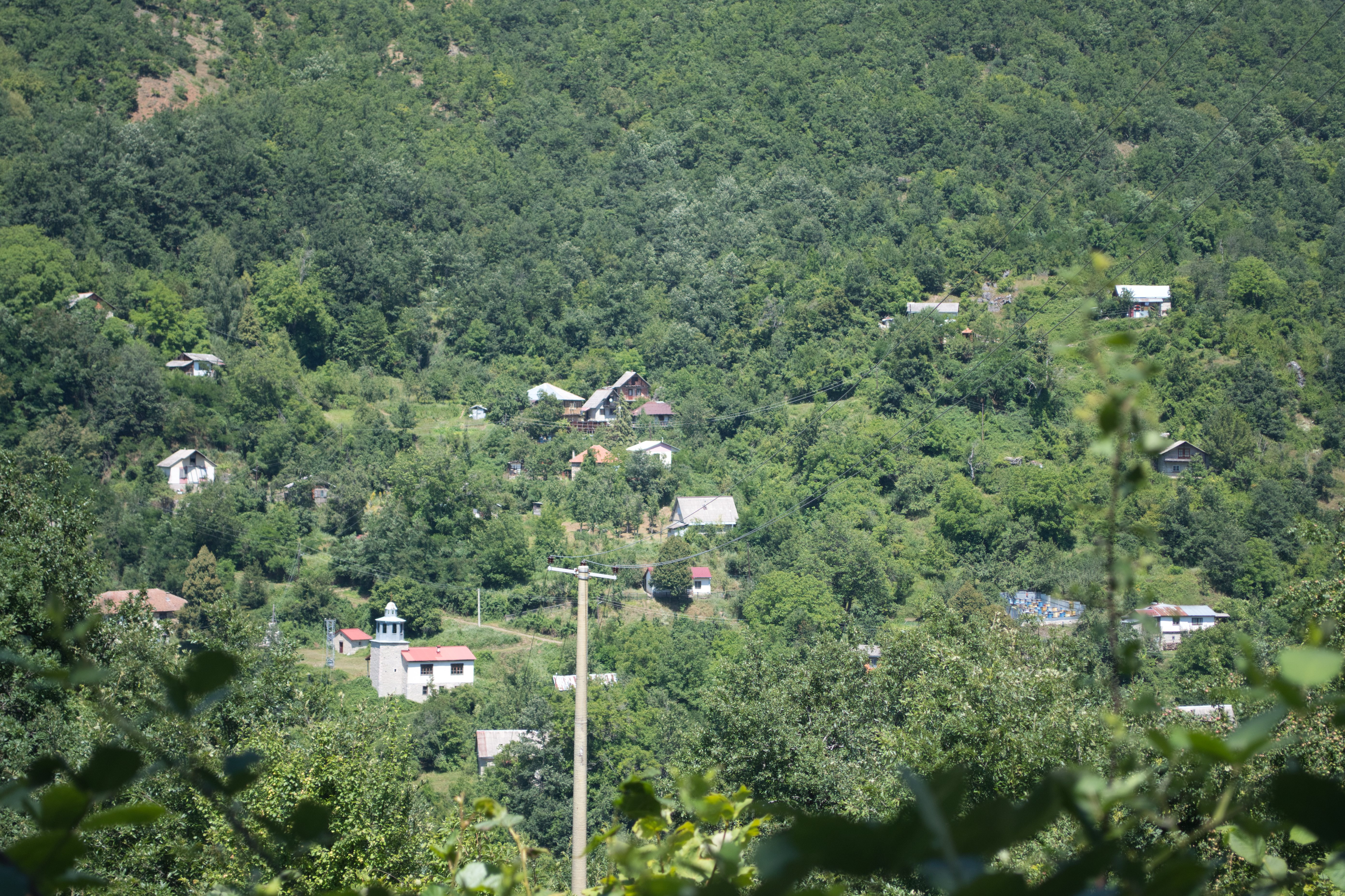 Panorama of the village of Selci